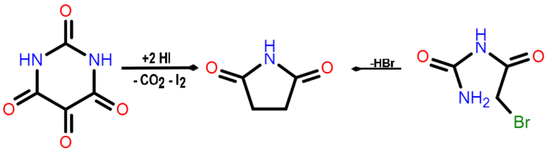 Hydantoin synthesis from aloxanic acid